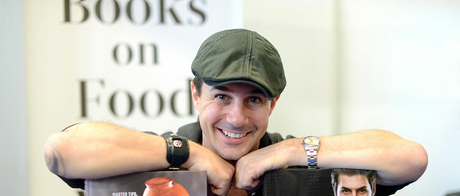 Johnny Iuzzini at Star Chefs book signing October, 2014.jpg